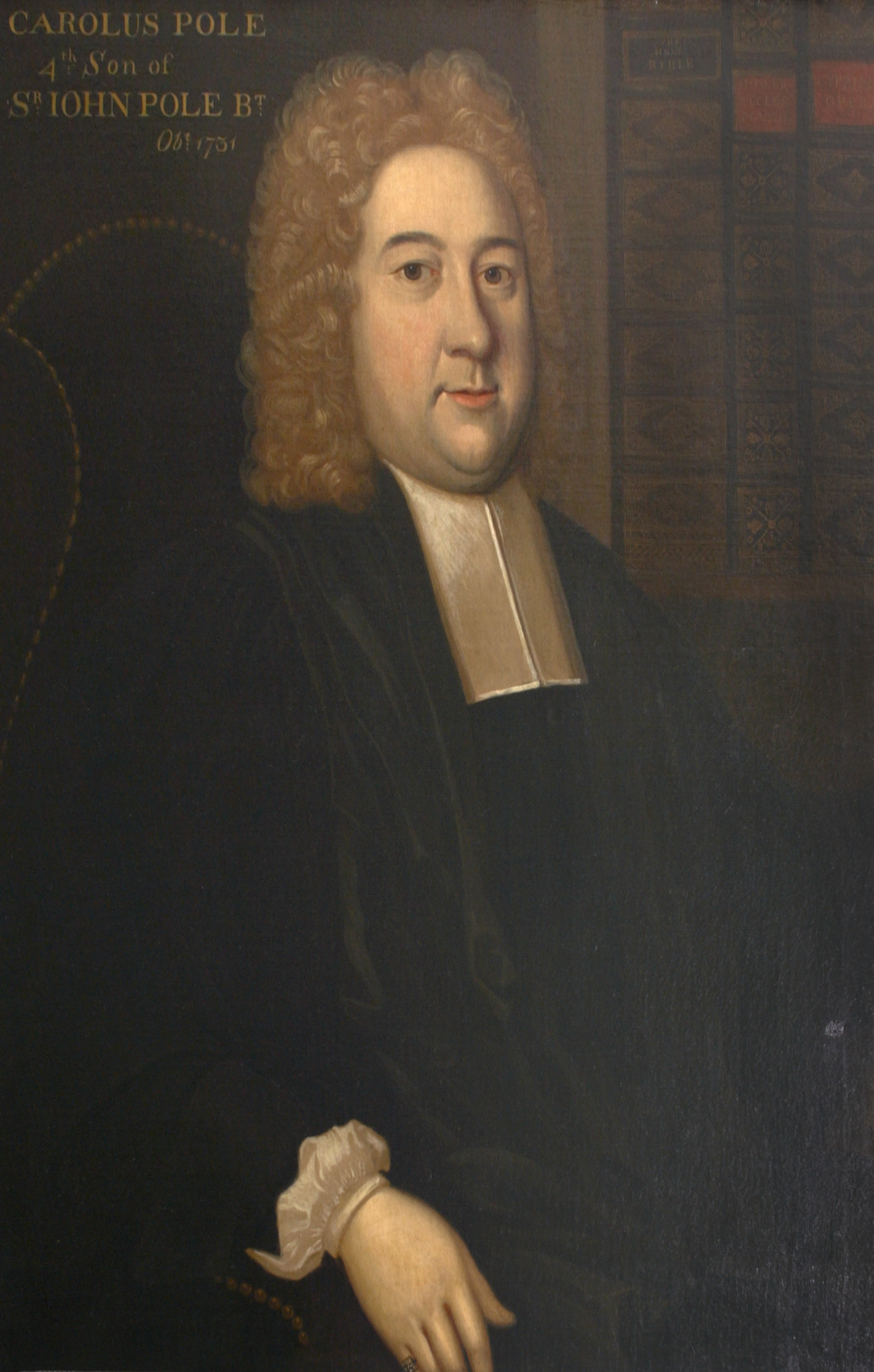 Rev. Carolus Pole (1686-1731), 3rd son of Sir John Pole, 3rd Baronet of Shute, Devon and Rector of St Breock in Cornwall. By his wife Sarah Rashleigh, a daughter of Jonathan II Rashleigh (1642-1702) of Menabilly, Cornwall, he was the grandfather of Reginald Pole-Carew (1753-1835) who inherited the Carew seat of Antony from his cousin Sir Coventry Carew, 6th Baronet (d.1748).